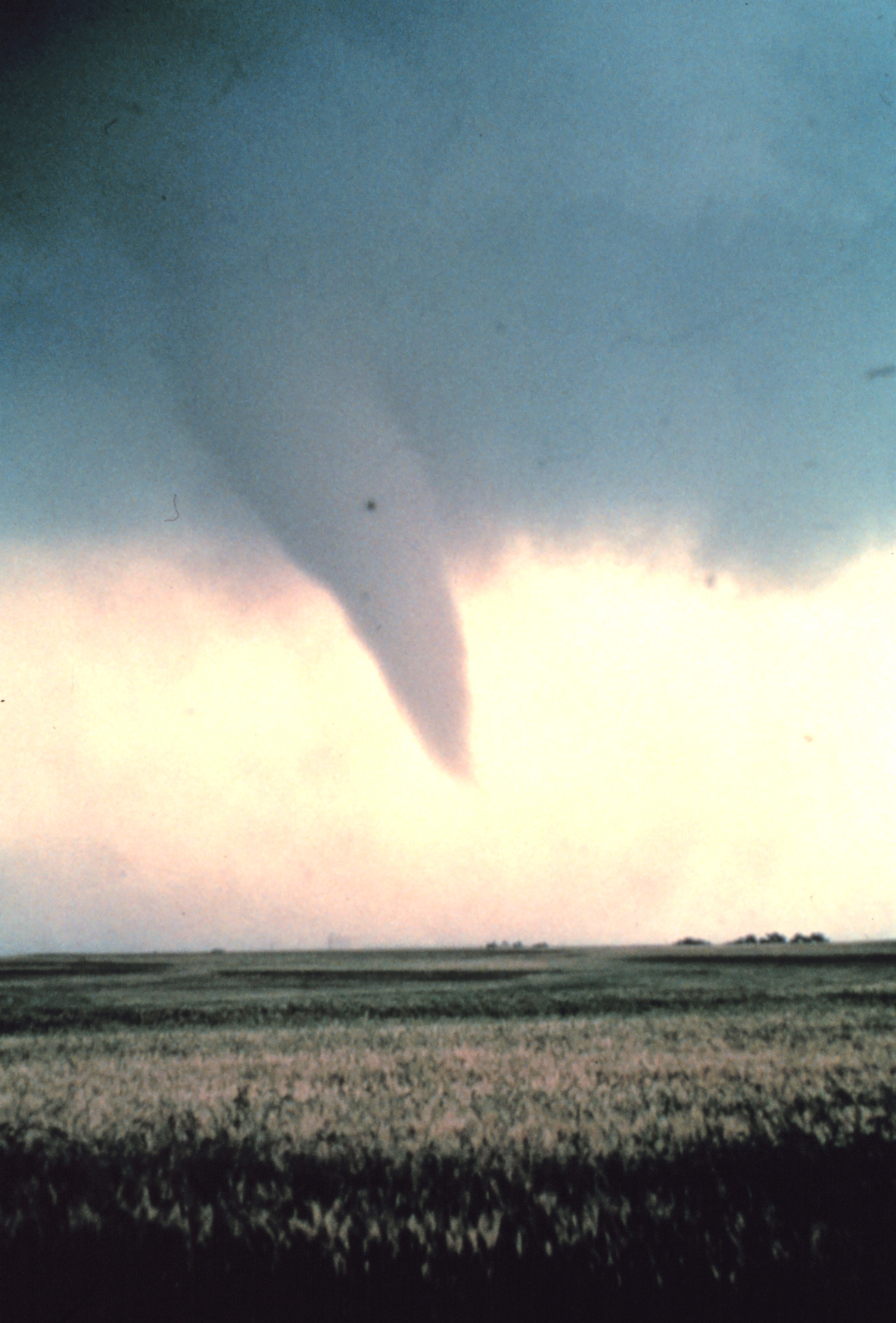 Tornado at beginning of life - condensation funnel has not yet reached ground. However, dust cloud at surface indicates tornado touchdown. During "Sound Chase", a joint project of NSSL and Mississippi State University. Location: Cordell, Oklahoma, USA